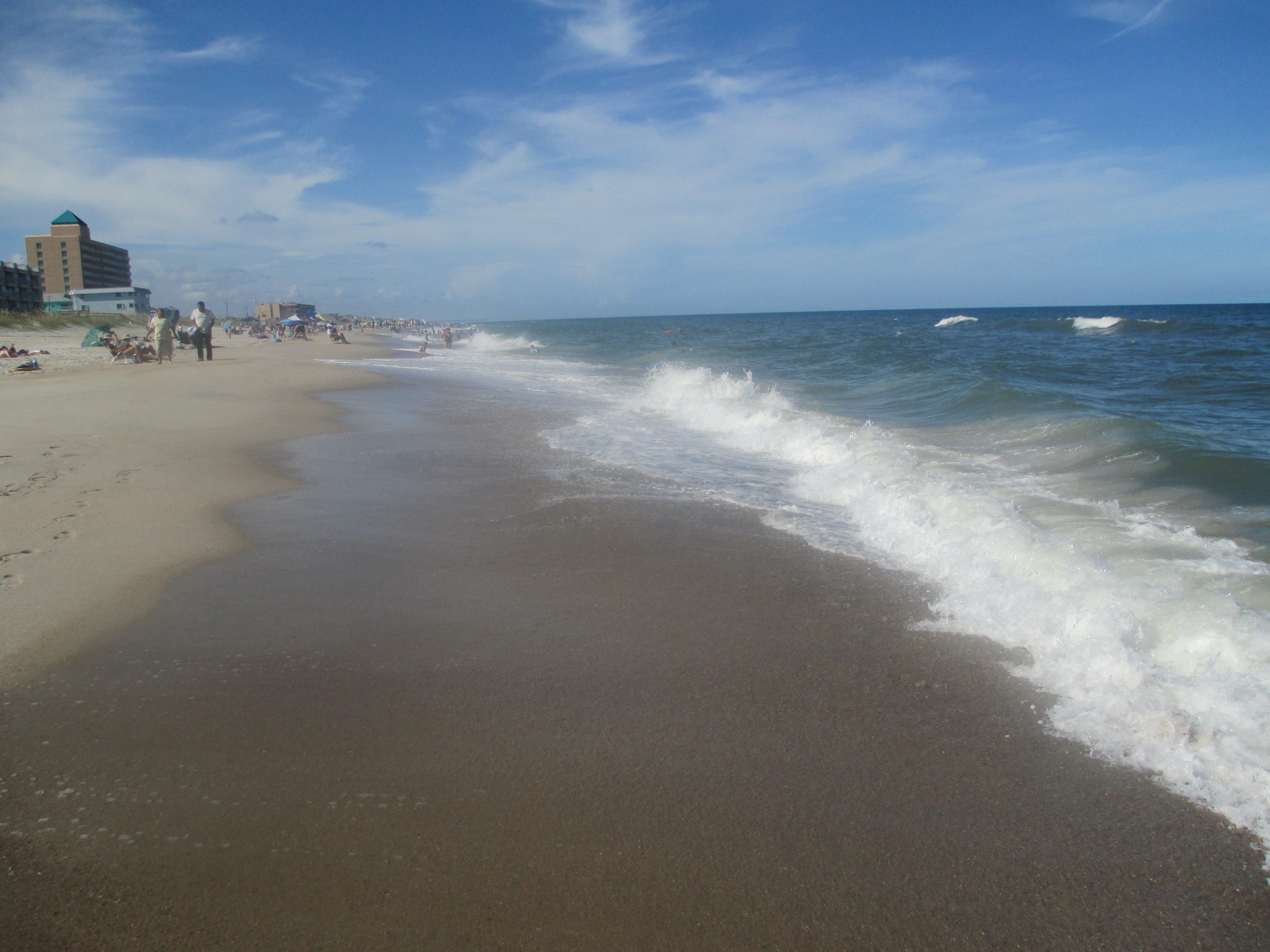 I took photo with Canon camera of Carolina Beach surf.